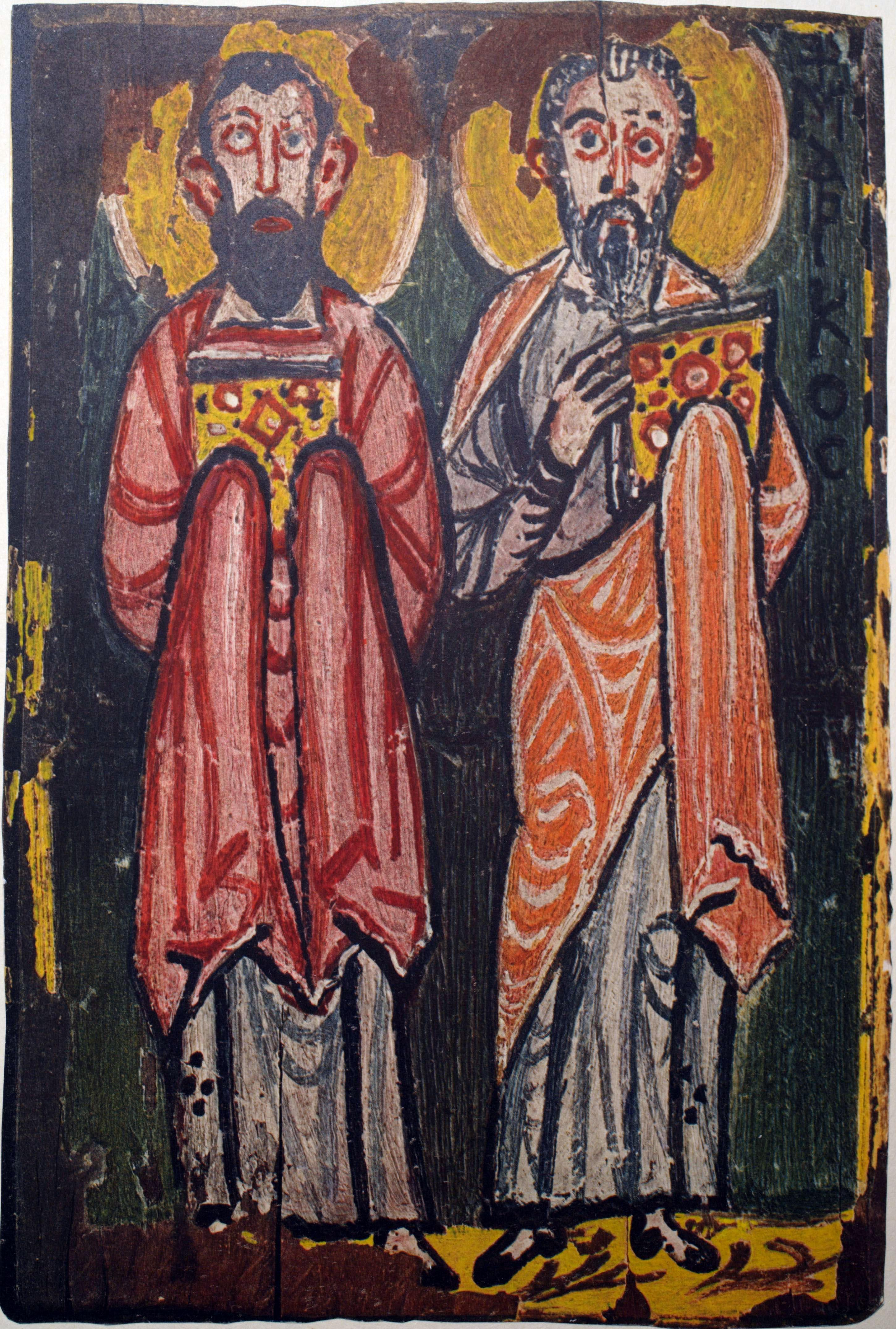 Illustration on the last page of the codex Codex Washingtonianus